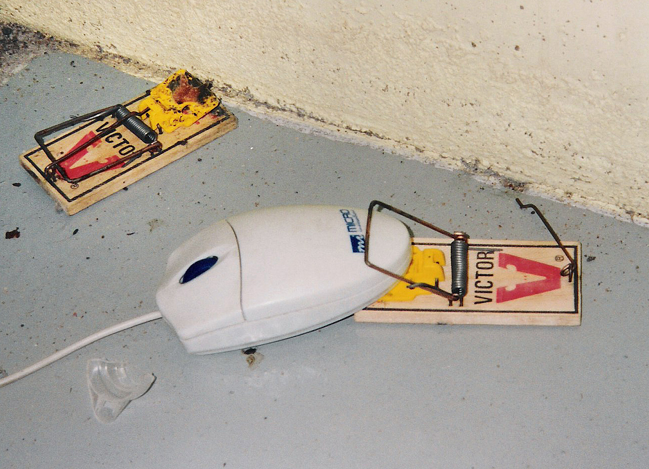 Computer mouse caught in a mouse trap